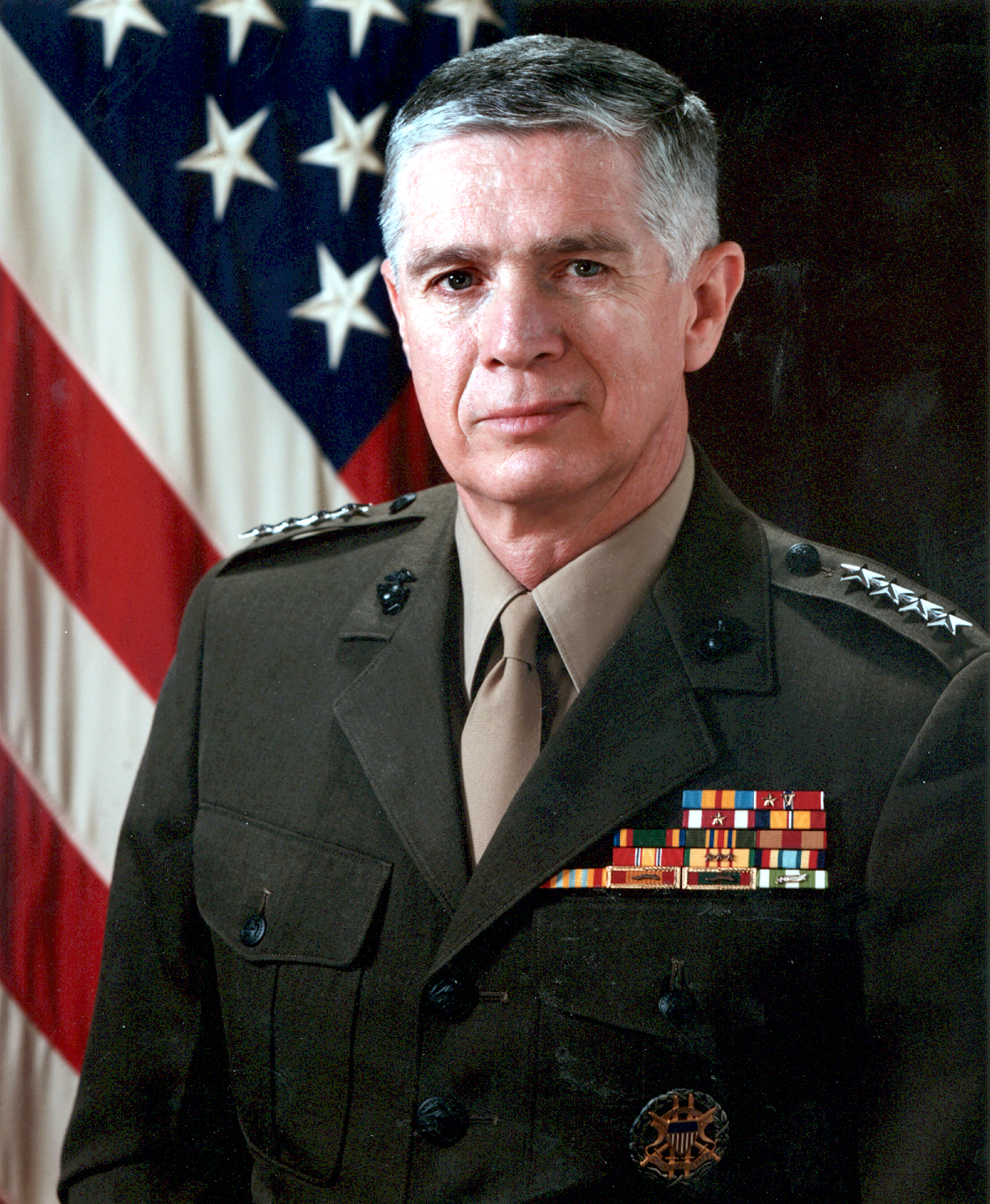 General Joseph P. Hoar, former CENTCOM commander.